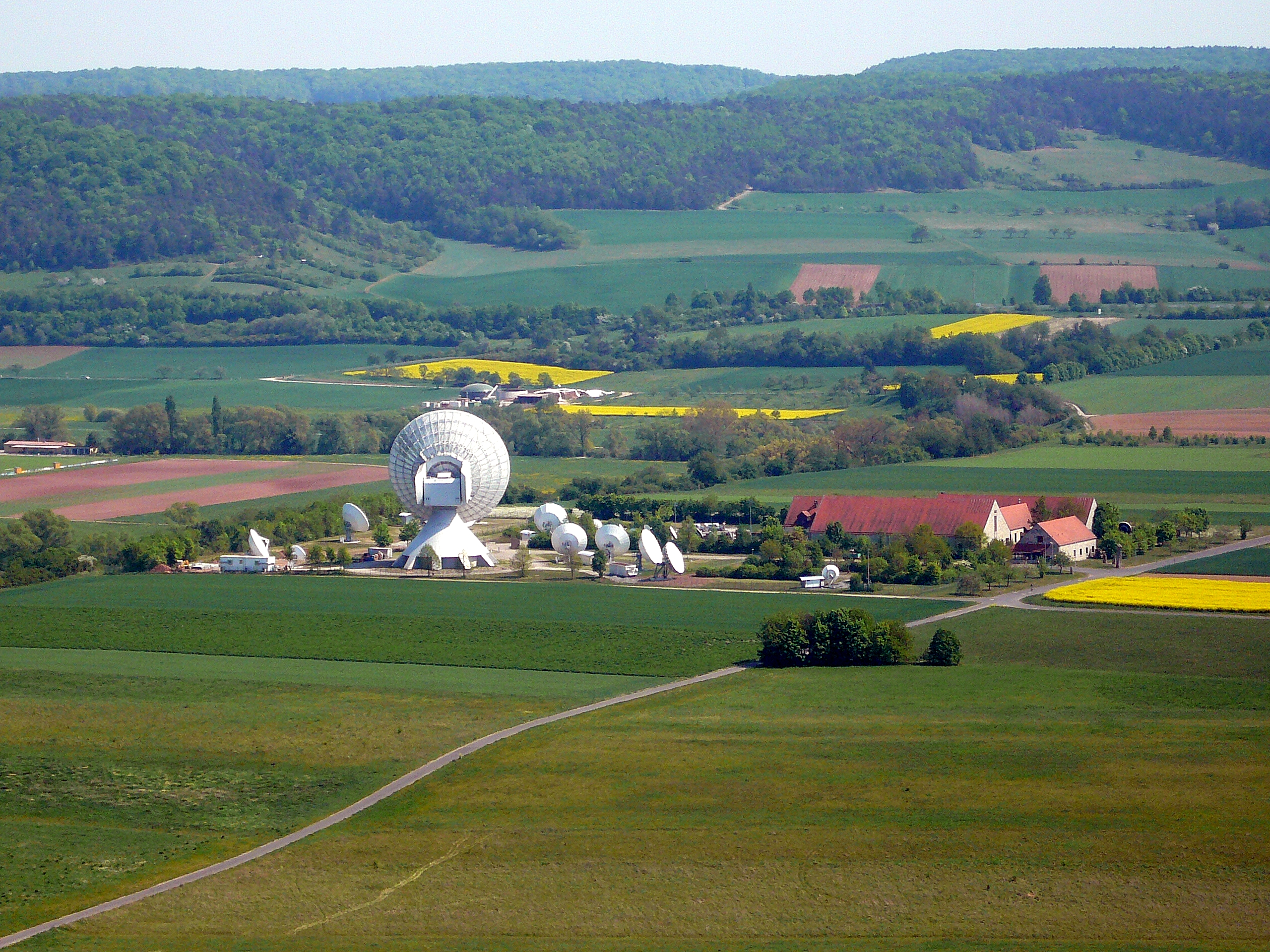 Satellite ground station Fuchsstadt, Germany, aerialfield one, taken from the air